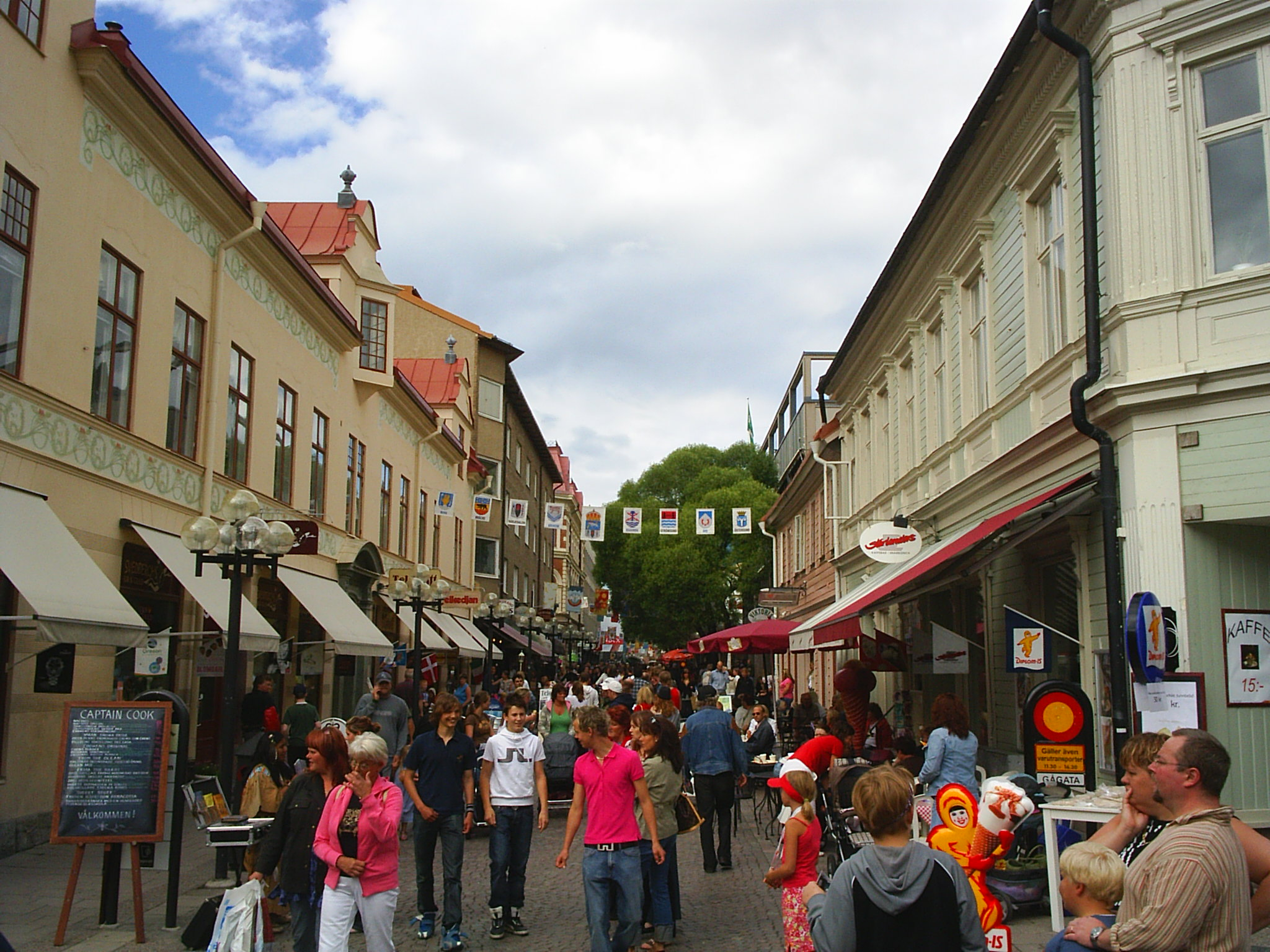 Östersund main street